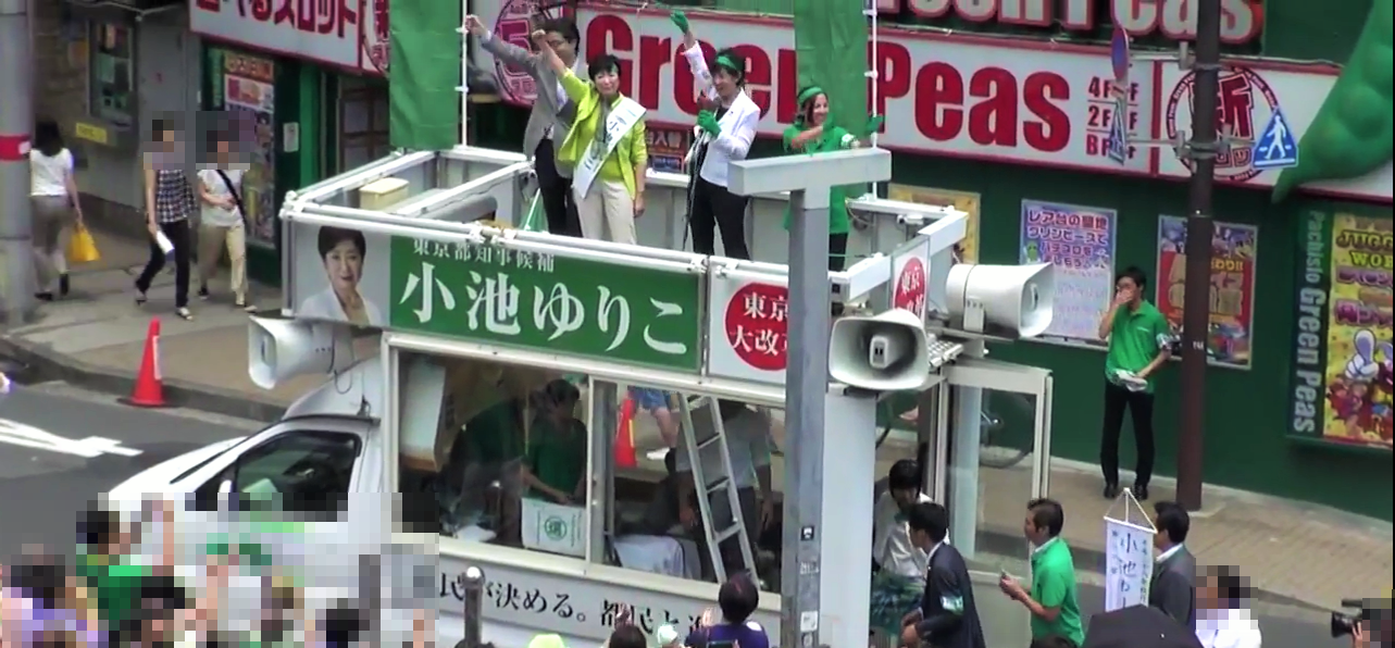 election on 2016.7.31